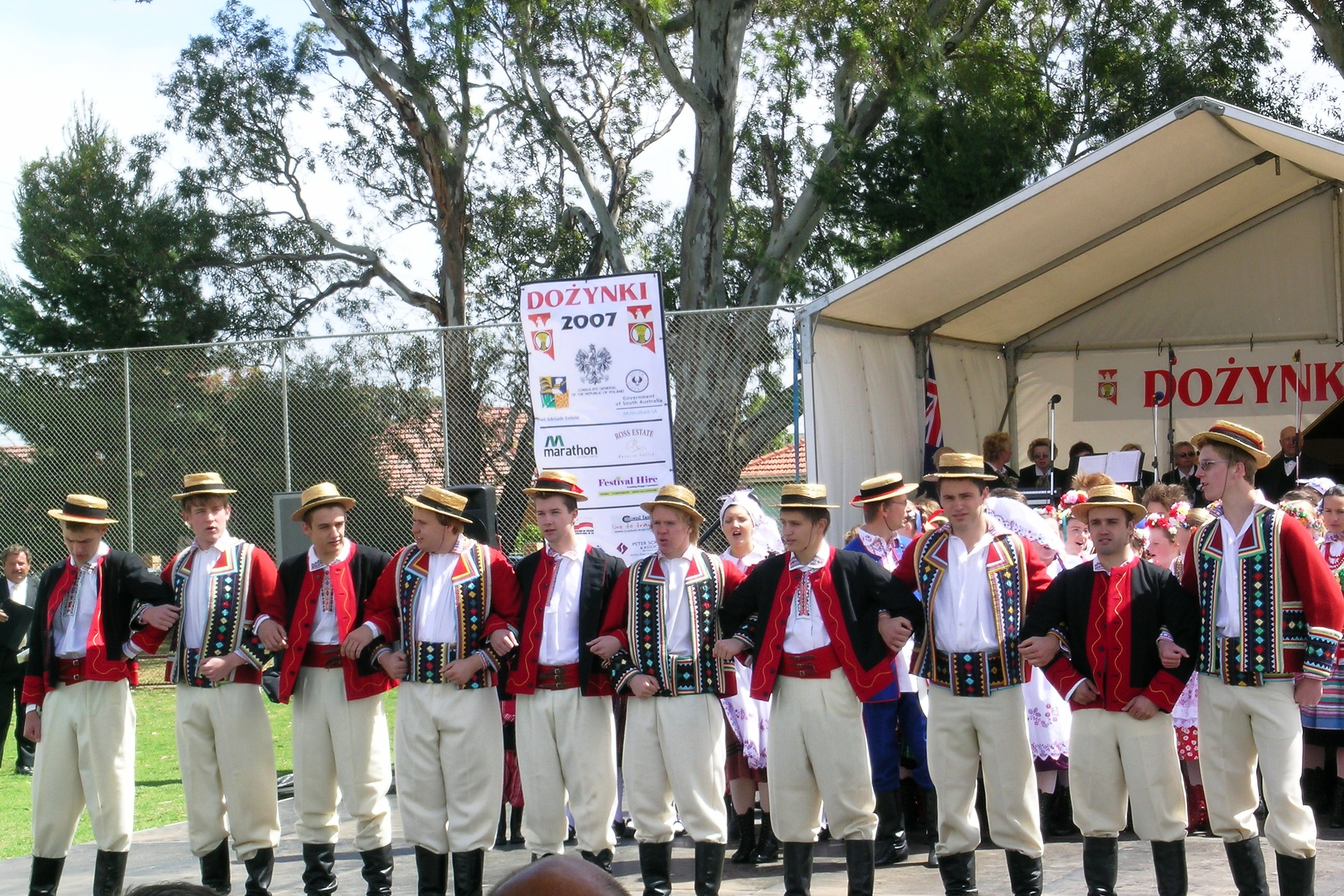 Polish Dozynki Festival in Adelaide, South Australia, 2007